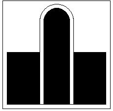 Logo of the 7. Fallschirm-Jäger-Division, II World War